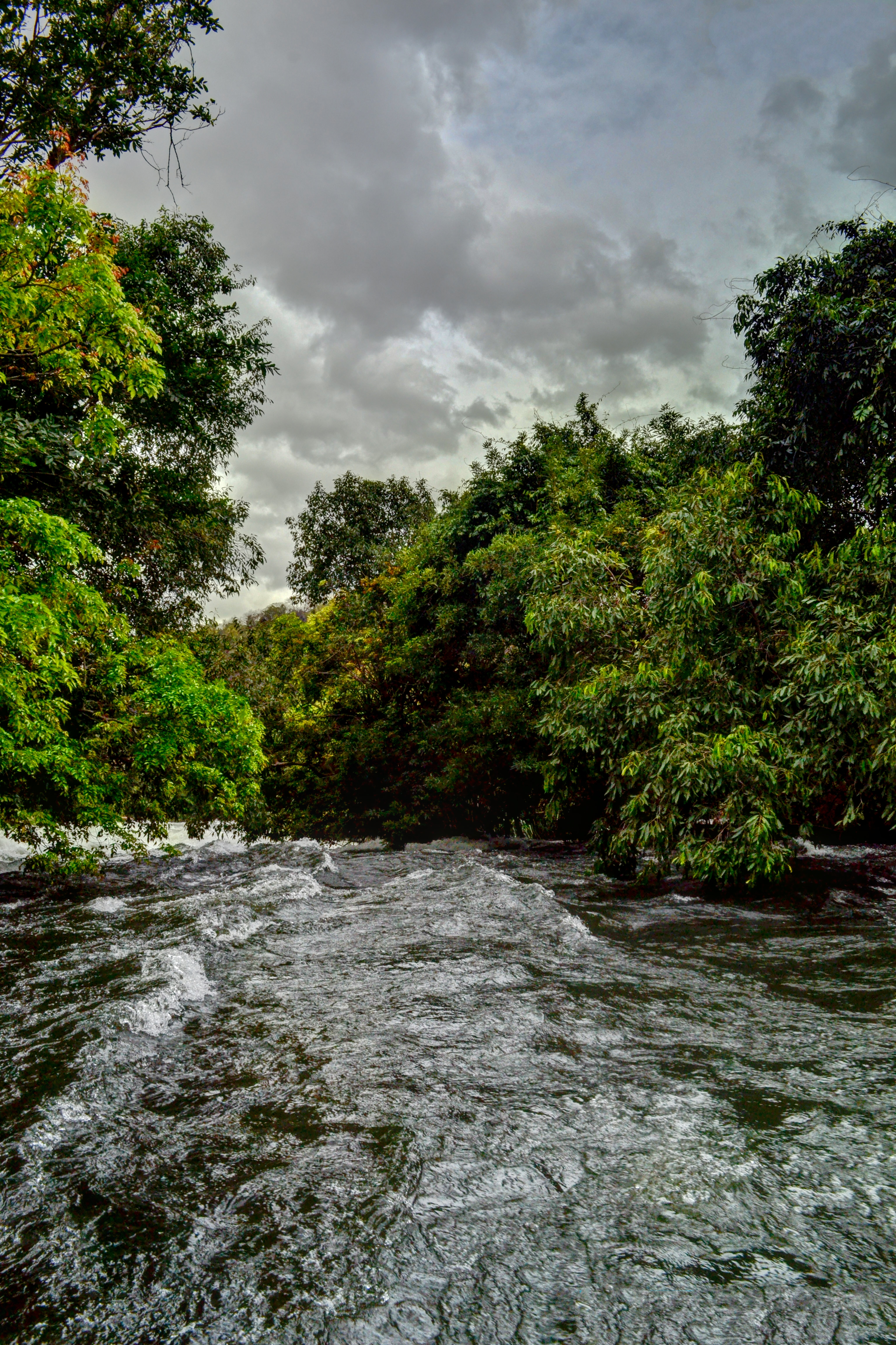 Thamirabarani River is one of the Famous River in INDIA. Its god's gift to Tamilnadu.